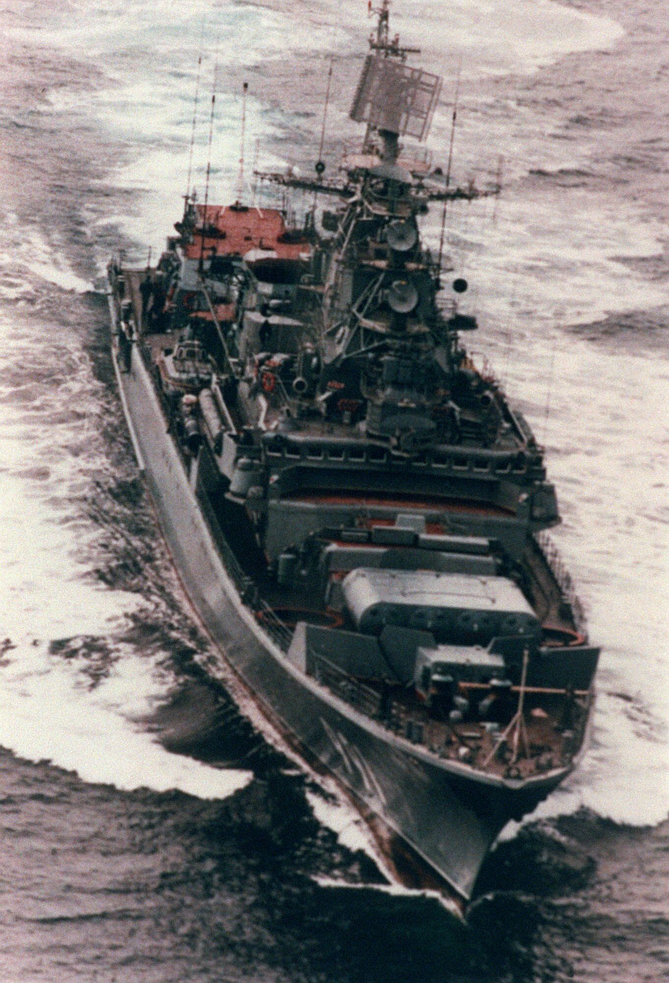 Aerial starboard bow view of the Russian Northern Fleet Krivak I Class guided missile frigate LEGKIY (SER-991) underway.